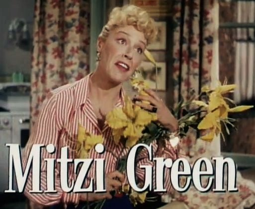 Mitzi Green in Bloodhounds of Broadway - trailer (cropped screenshot)